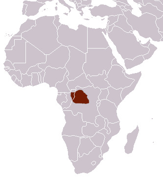 Allen's Swamp Monkey (Allenopithecus nigroviridis) range